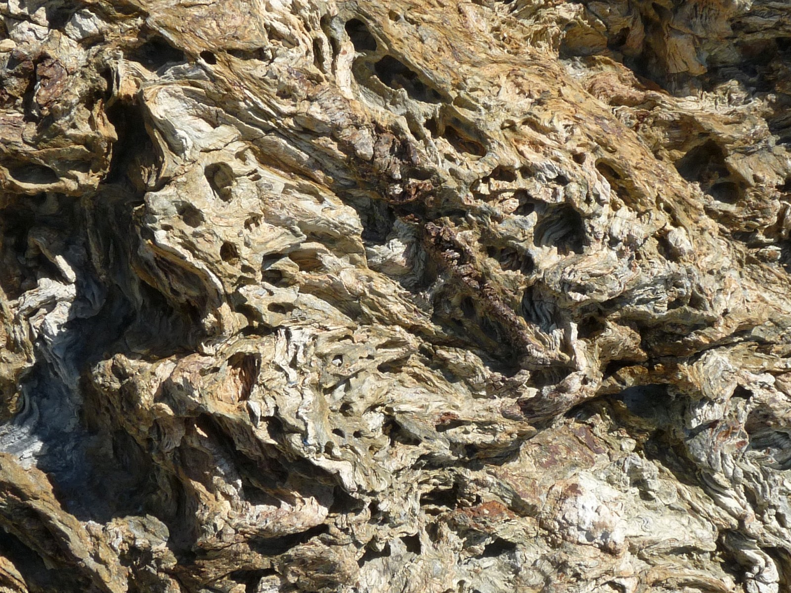 Rock half-limestone, half-volcanic, proterozoic supposed (geological map, but small scale), seaside of Banyuls-sur-Mer, south France